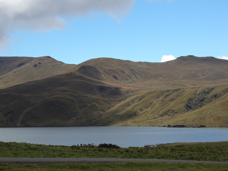 A lake in the Andes Mountains